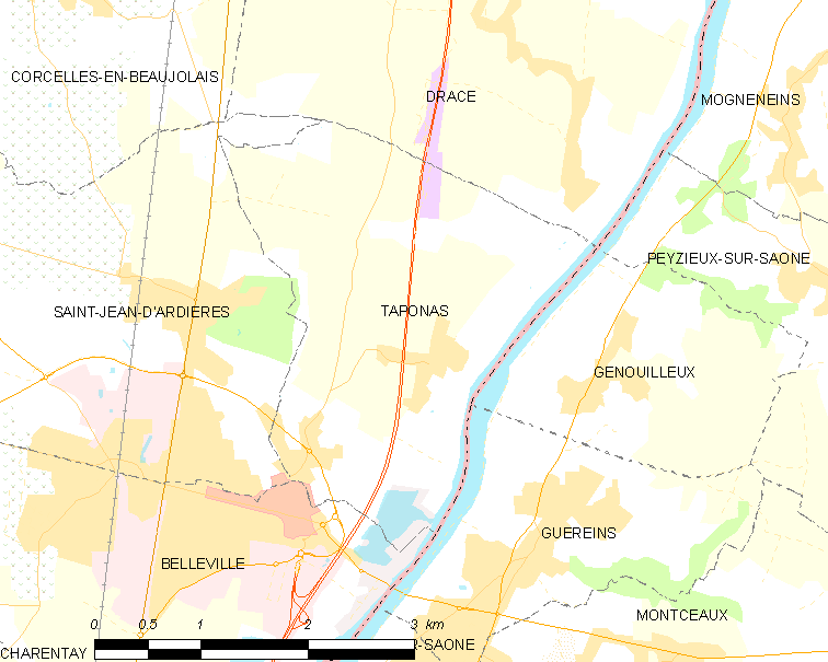 Map of French municipality